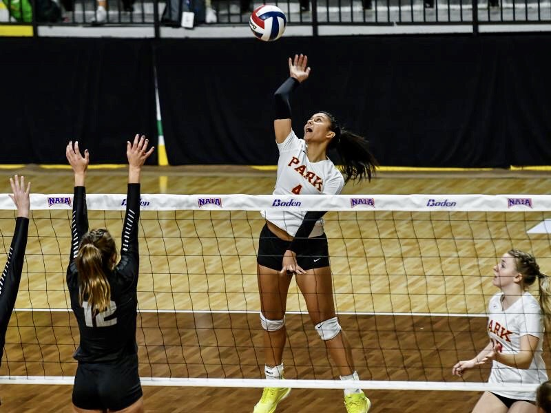 Nada Meawad attacks from the pipe line in National Championship 2019